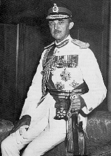 Image of Sir Gerald Templer